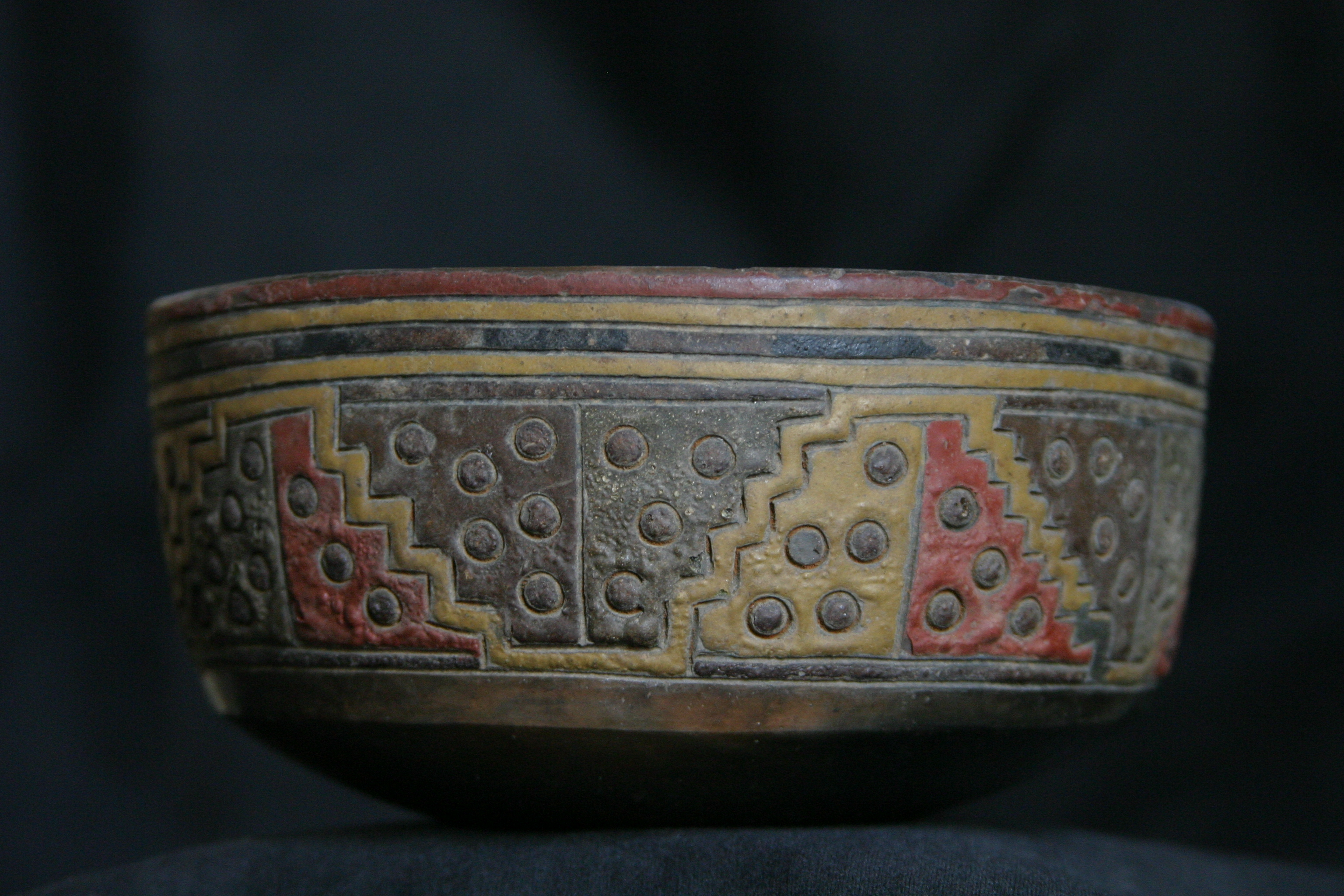 Paracas-Ocucaje bowl with resin paint, 600-200 B.C.